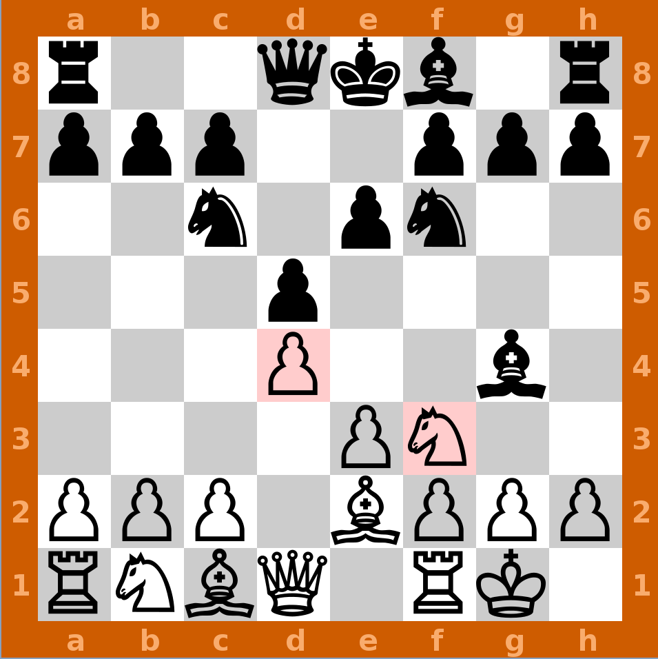 Screenshot of a chess match on GnuChess, played on a GNU/Linux Ubuntu computer.